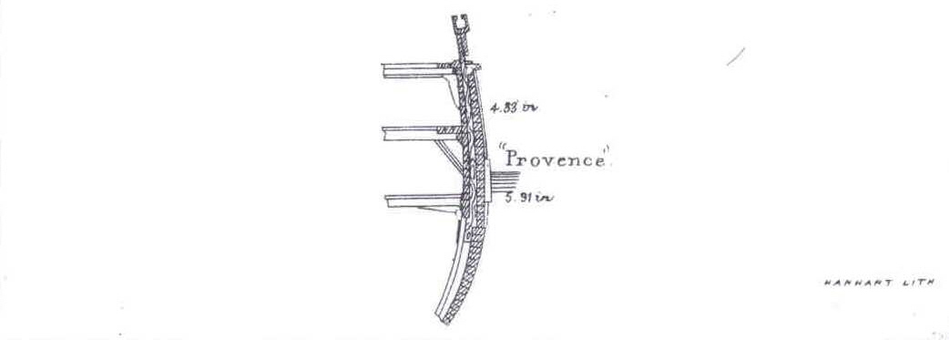 Detail of the side armour on the Provence class ironclads